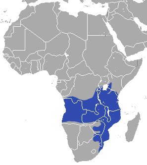 Brown Greater Galago (Otolemur crassicaudatus) range